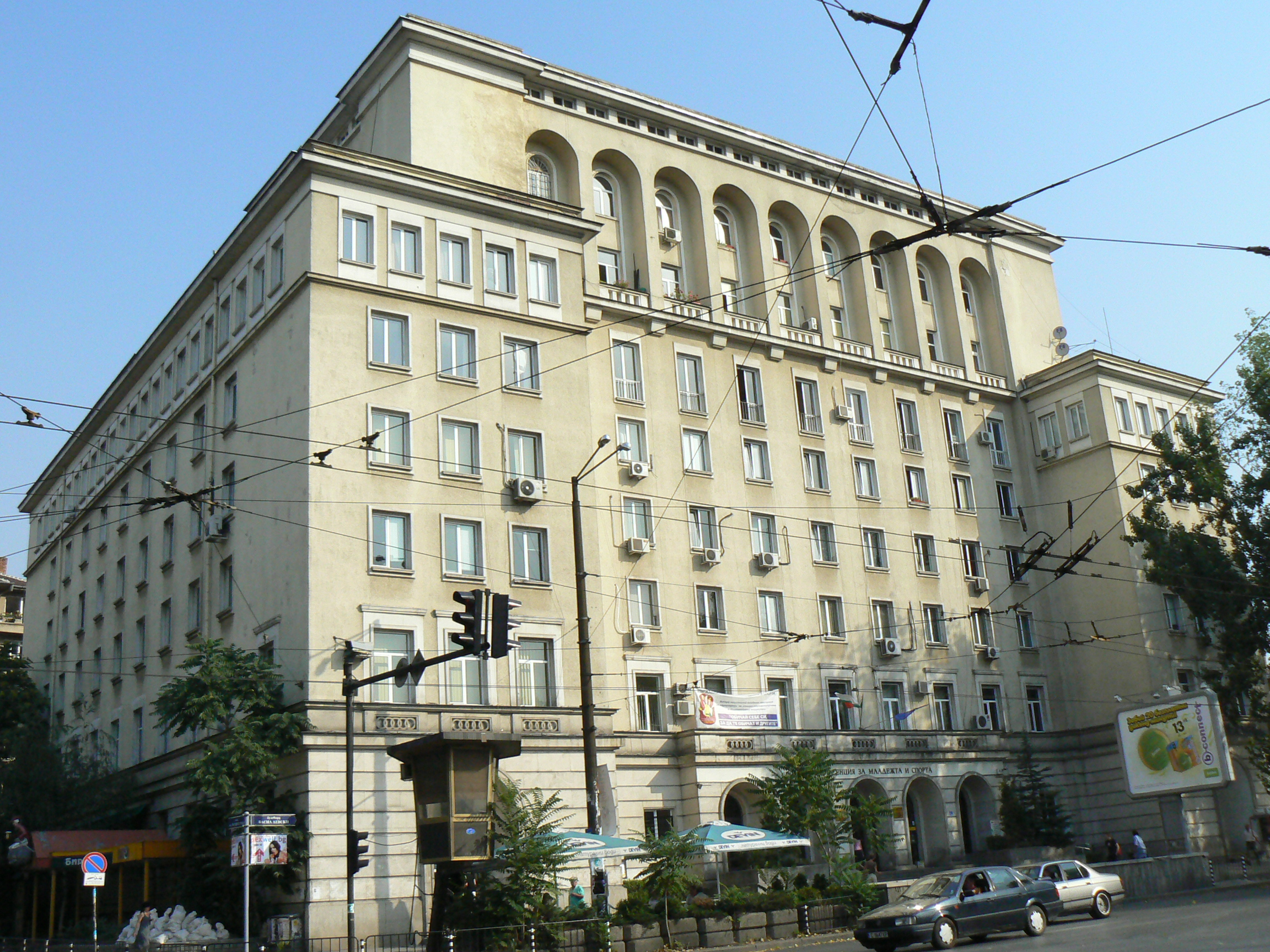 Building of the State Agency for Youth and Sports, Sofia, Bulgaria